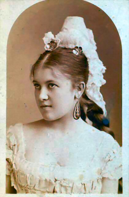 Jennie Lee c. 1872